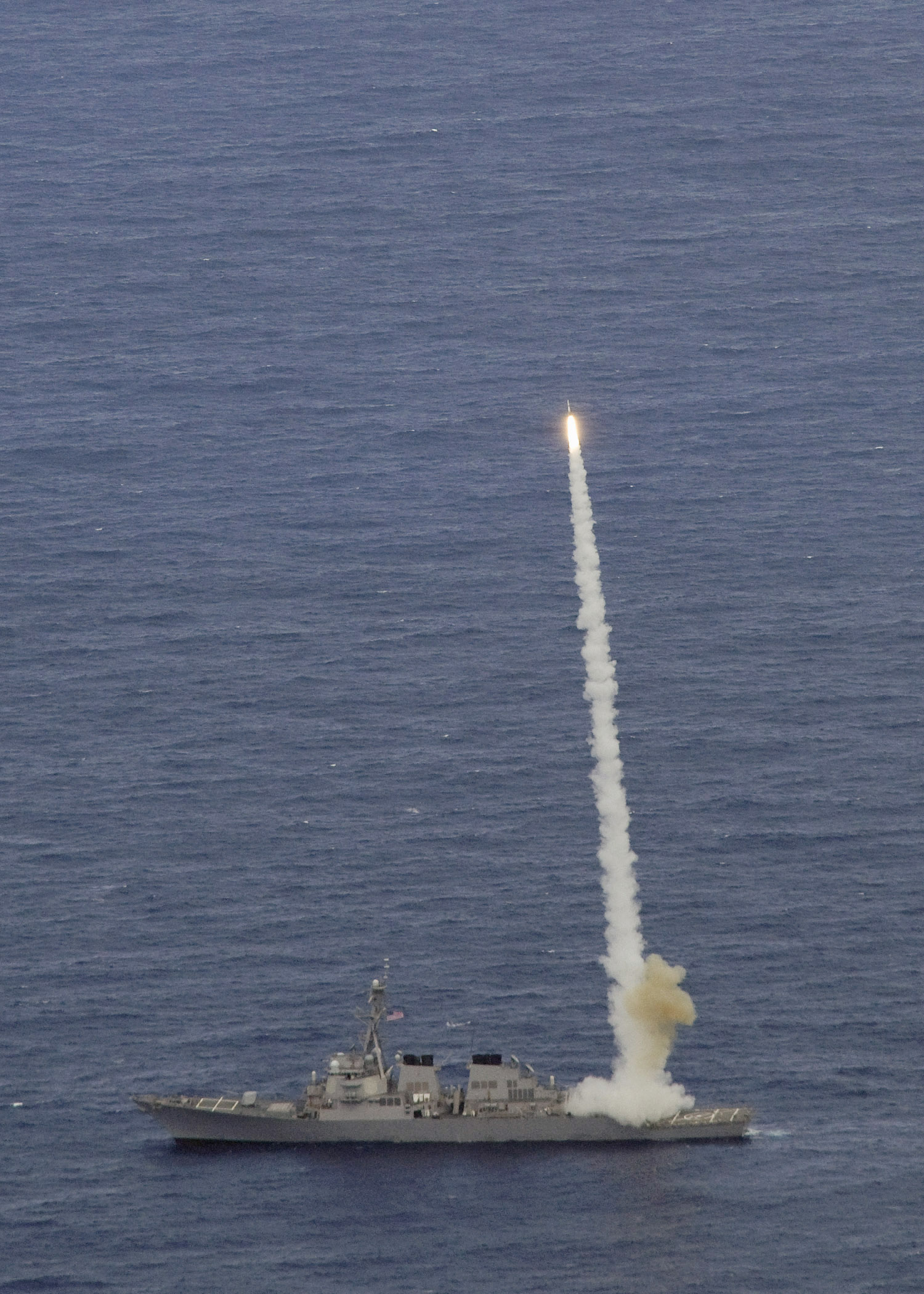 PACIFIC OCEAN (Sept. 23, 2009) The guided-missile destroyer USS Curtis Wilbur (DDG 54) launches a RIM-156 Standard SM-2 ER missile while conducting torpedo evasion maneuvers during Multi-Sail 2009. Multi-Sail 2009 was designed to improve warfare mission readiness.